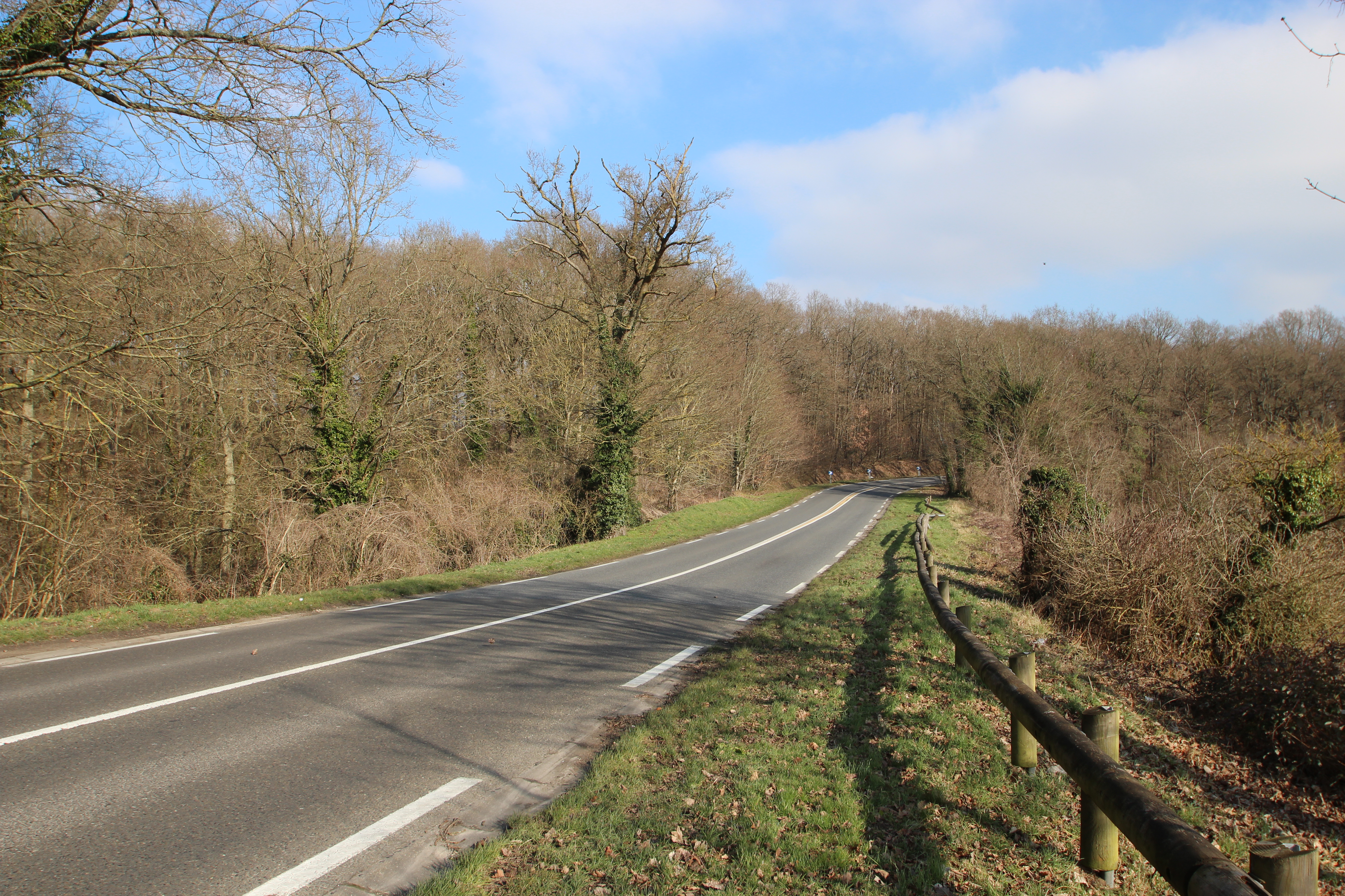 The Mérantaise river crossing the Departmental road 91 February the 5th 2015 in Voisins-le-Bretonneux, France.